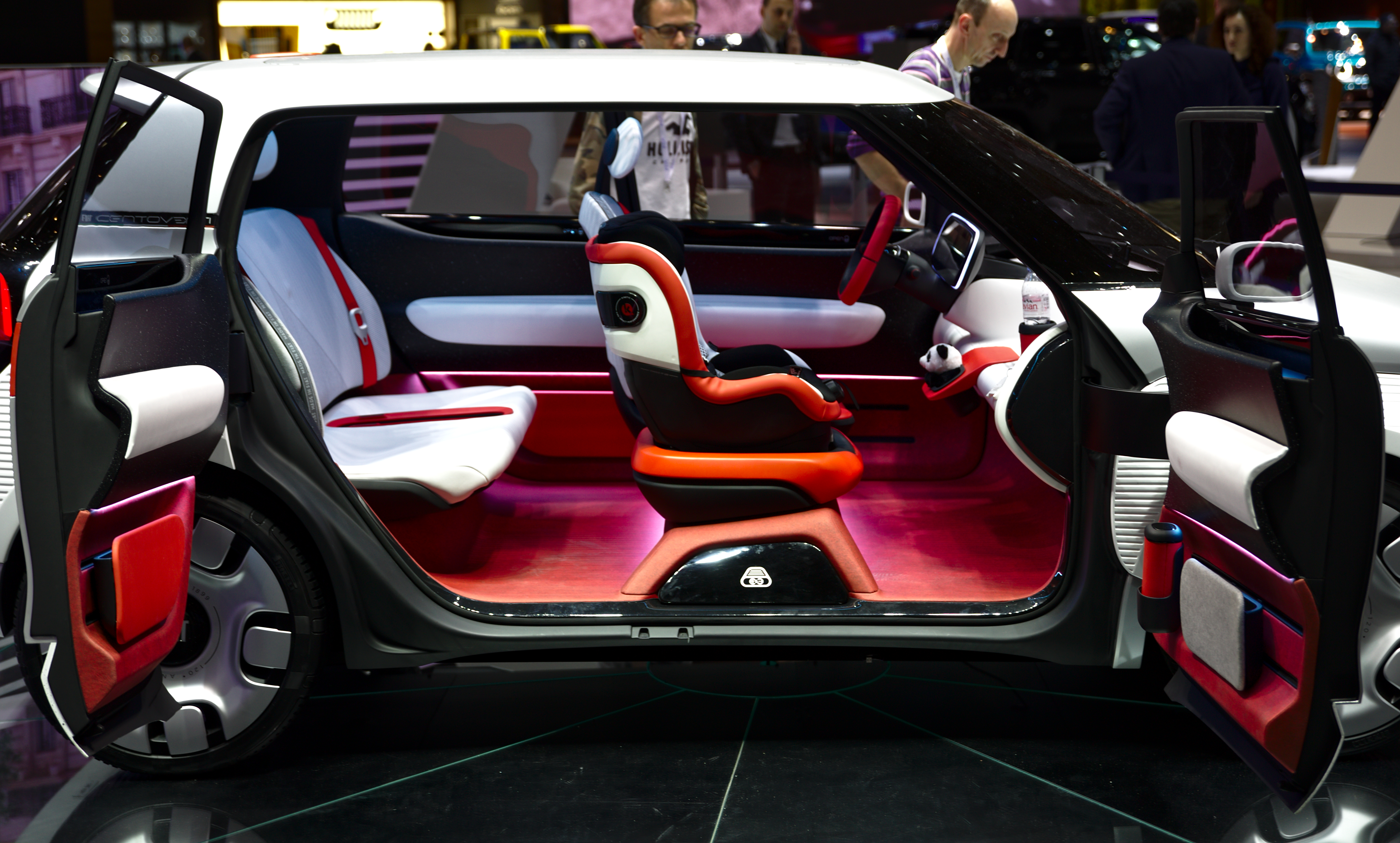 Fiat Centoventi Concept at Geneva Motorshow 2019